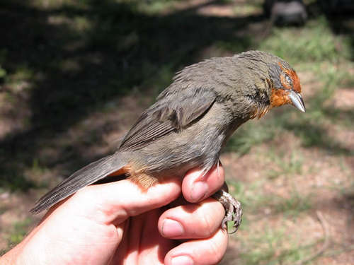 Compsospiza baeri, dead specimen